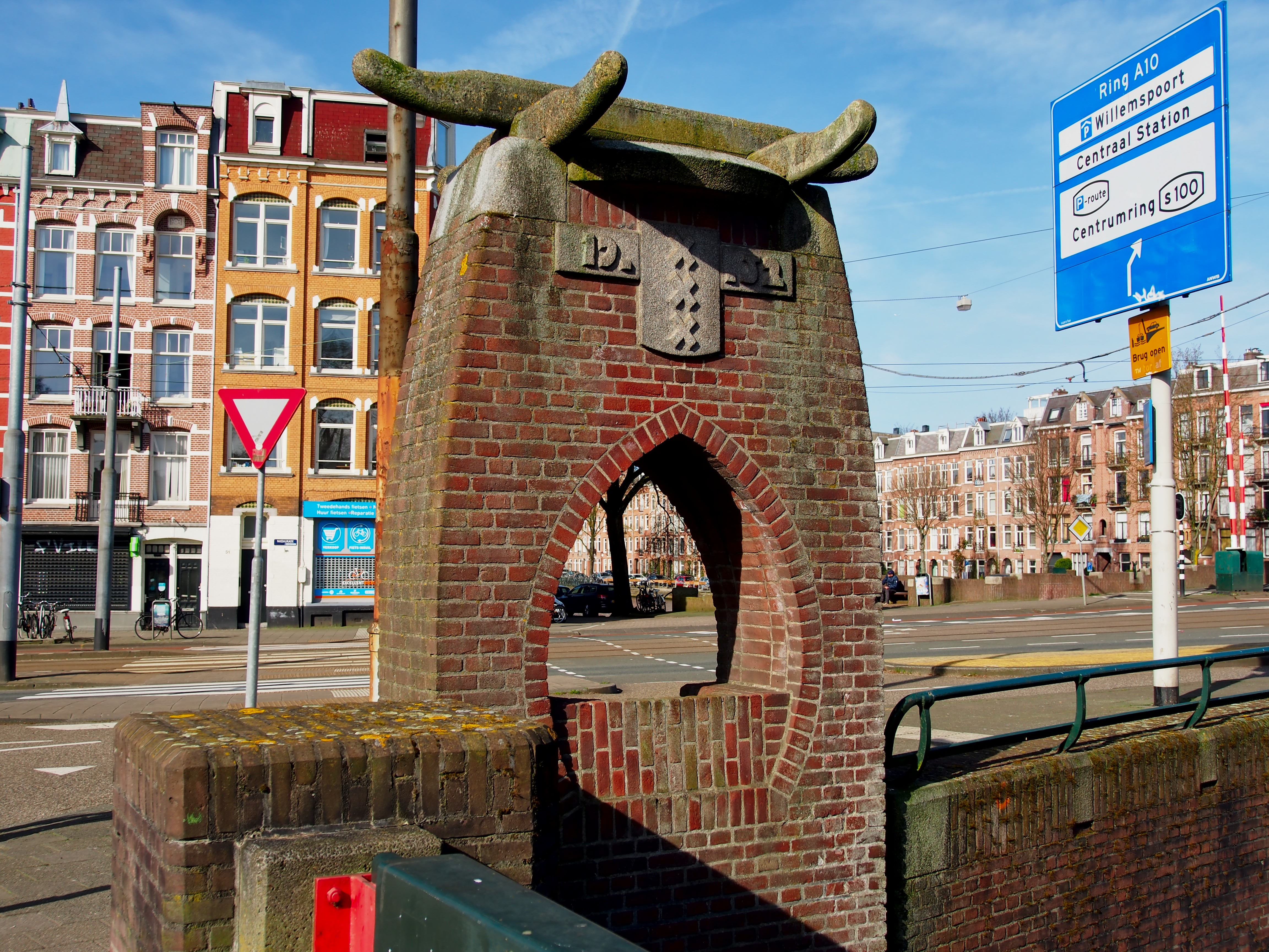 Photographed at Amsterdam, The Netherlands.